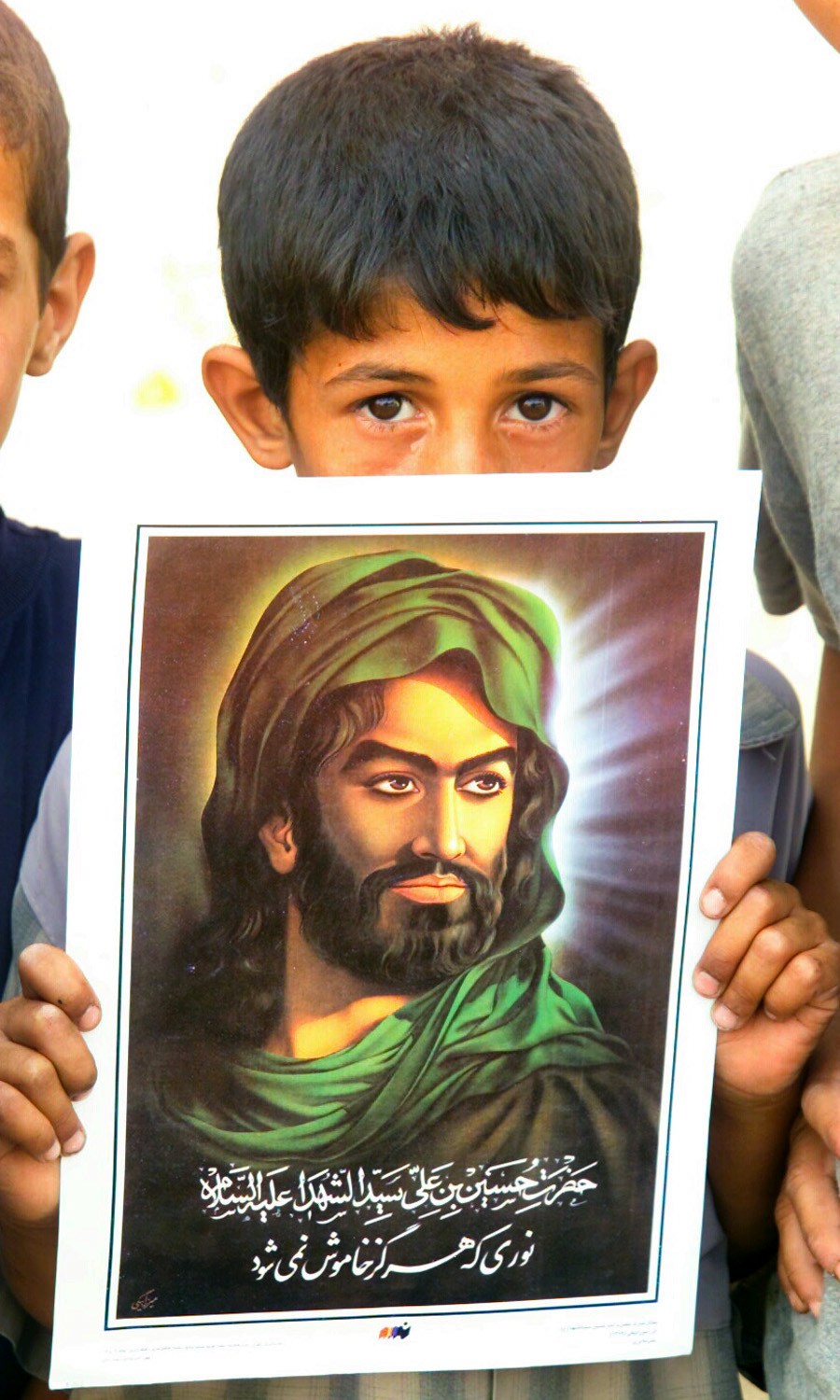 Al-Kut, Iraq (Jun. 14, 2003) -- An Iraqi boy holds up a picture of a religious icon in the Muslim city of Al-Kut. U.S. Marine Corps photo by Lance Cpl. Sotelo. (RELEASED)